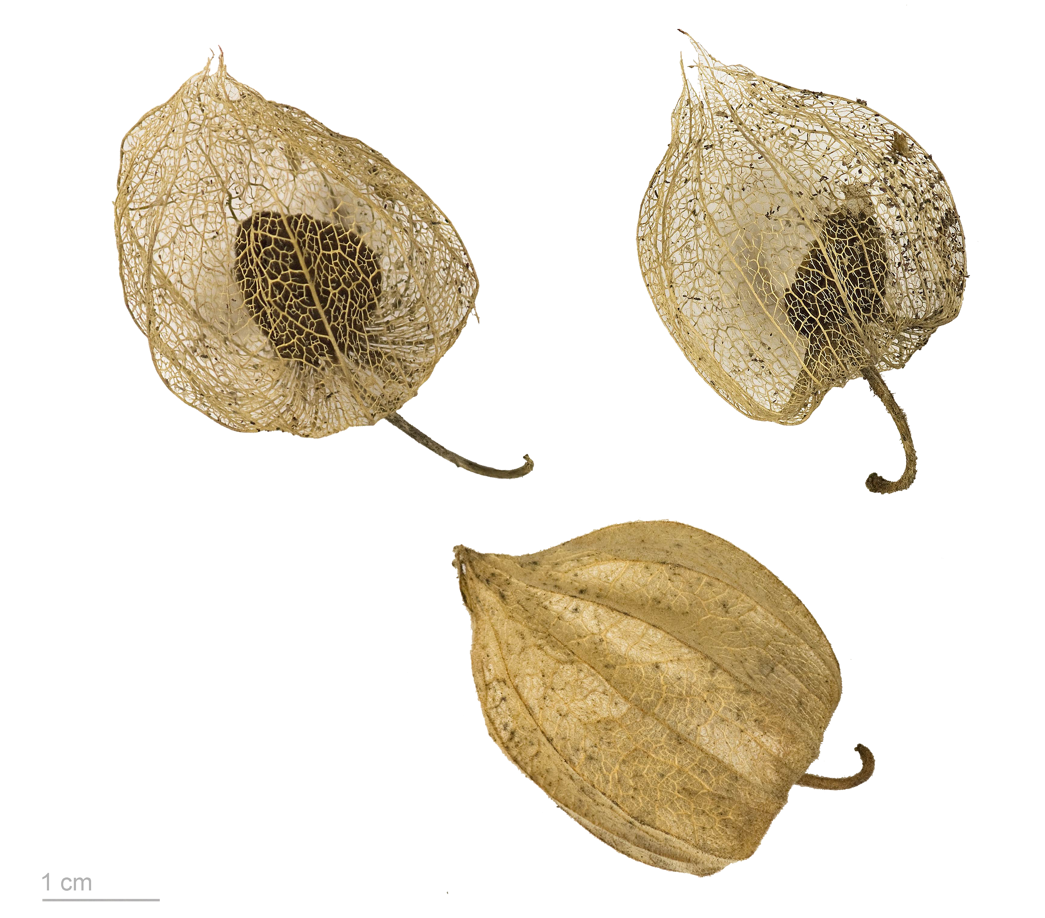 Inca berry , fruits and seeds